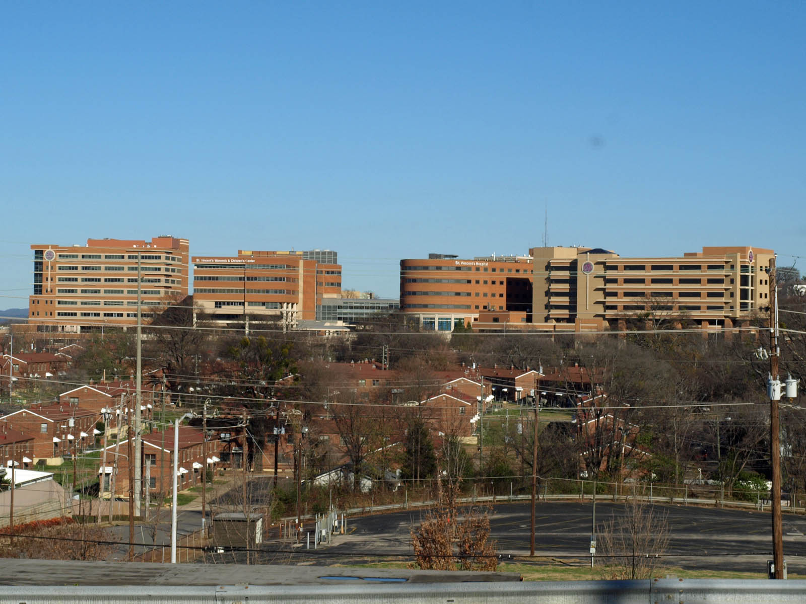 St. Vincent's Hospital in Birmingham, Alabama